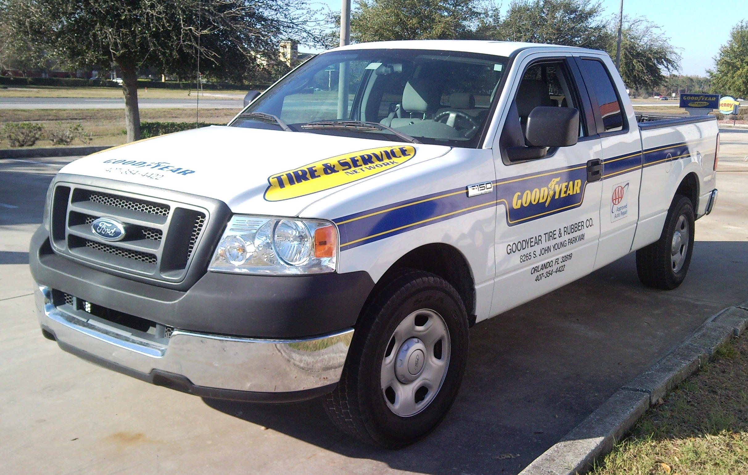 2004-2006 Ford F-150 Goodyear photographed in Orlando, Florida, USA.